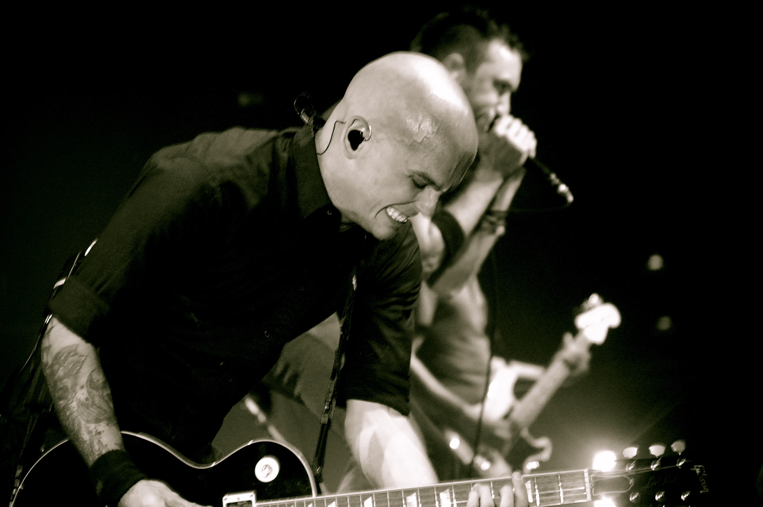 Zach Blair and Tim McIlrath (left to right) of Rise Against playing on the Appeal to Reason tour.